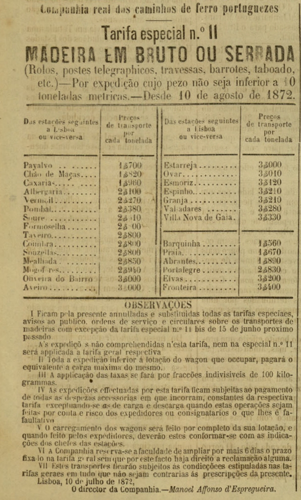 Advertisement of the Companhia Real dos Caminhos de Ferro Portugueses (Royal Company of the Portuguese Railways), showing the special fare n.º II, for the transport of wood. This image was published on the Diario Illustrado newspaper No. 50, of 19th August 1872, and scanned by the Biblioteca Nacional de Portugal.